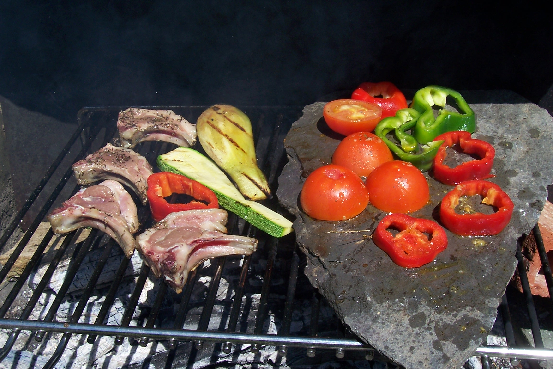 Pieces of meat and vegetables being barbecued on grill and stone.